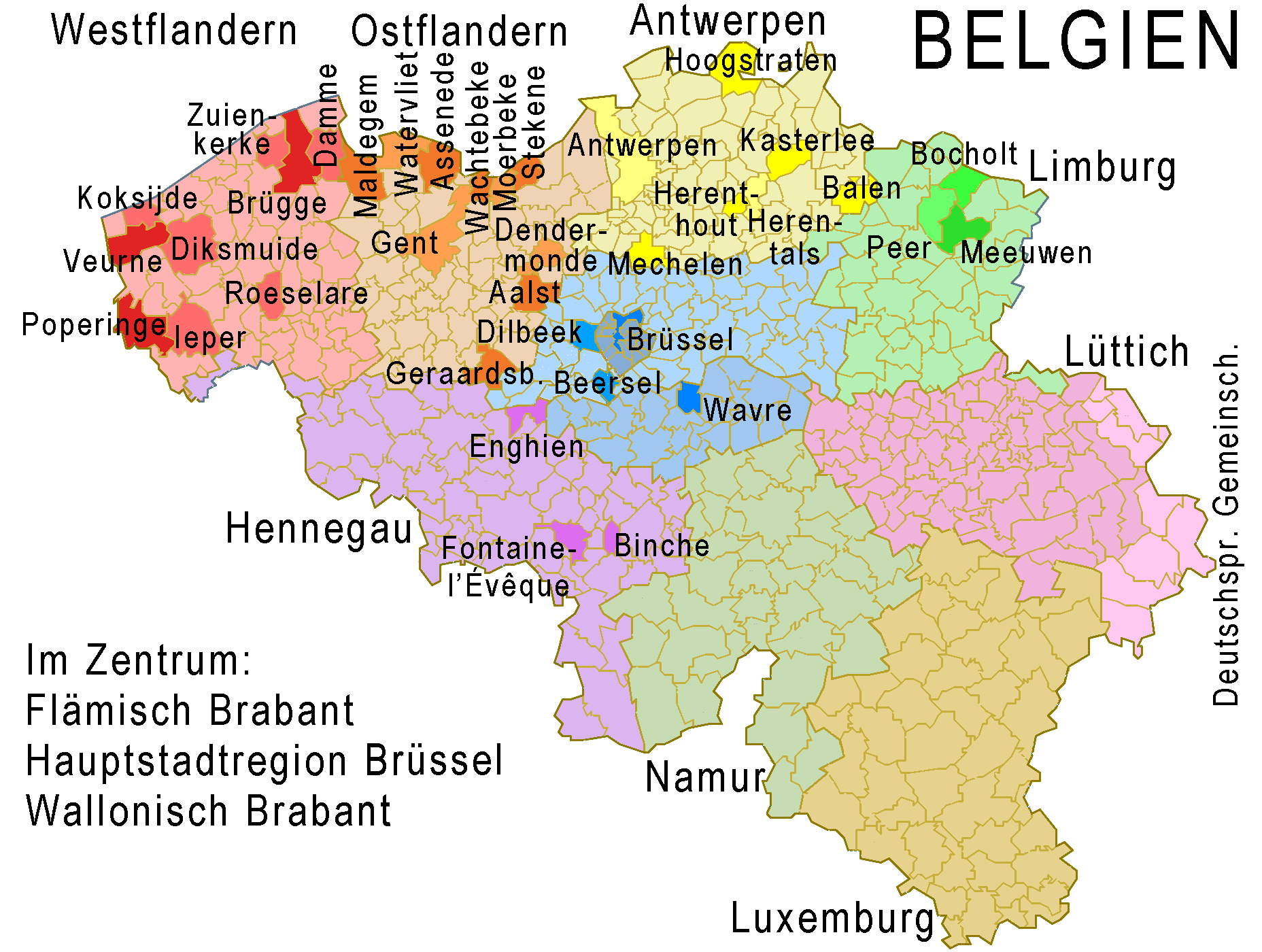 Map of Belgium with distiction of provinces and similar political units by colours. Places with Brick Gothic buldings emphasized by clearer colours.